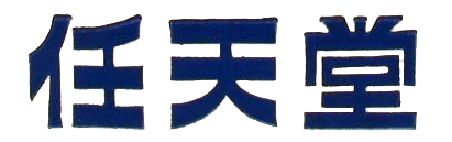 The Nintendo logo used from its inception in 1889 to 1950.